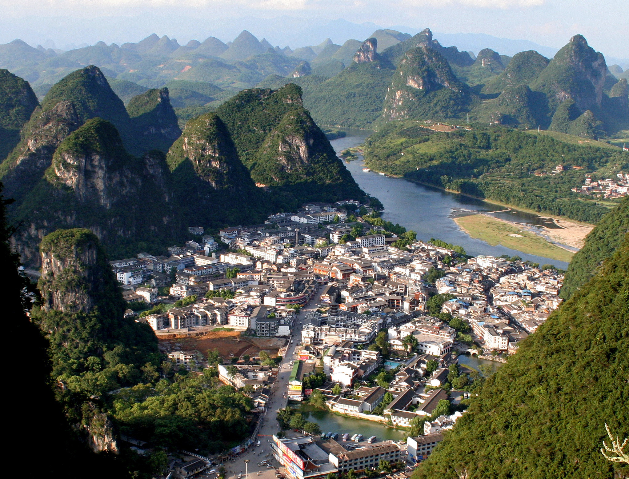 The town of Yangshuo, China, from a nearby karst peak known as the TV tower. The Li river can be seen in the background.